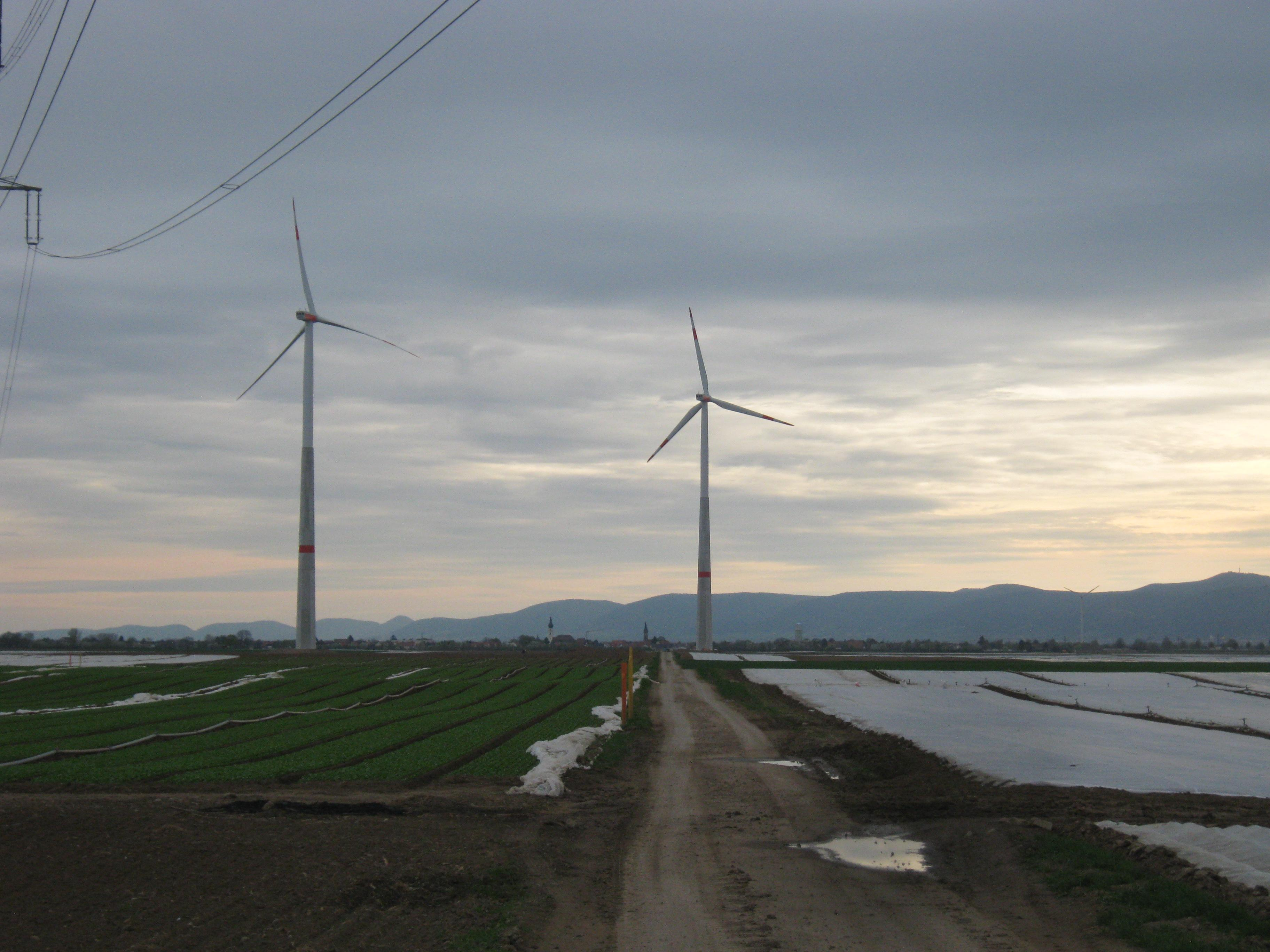 The 185 metres tall wind turbines of Böhl-Iggelheim